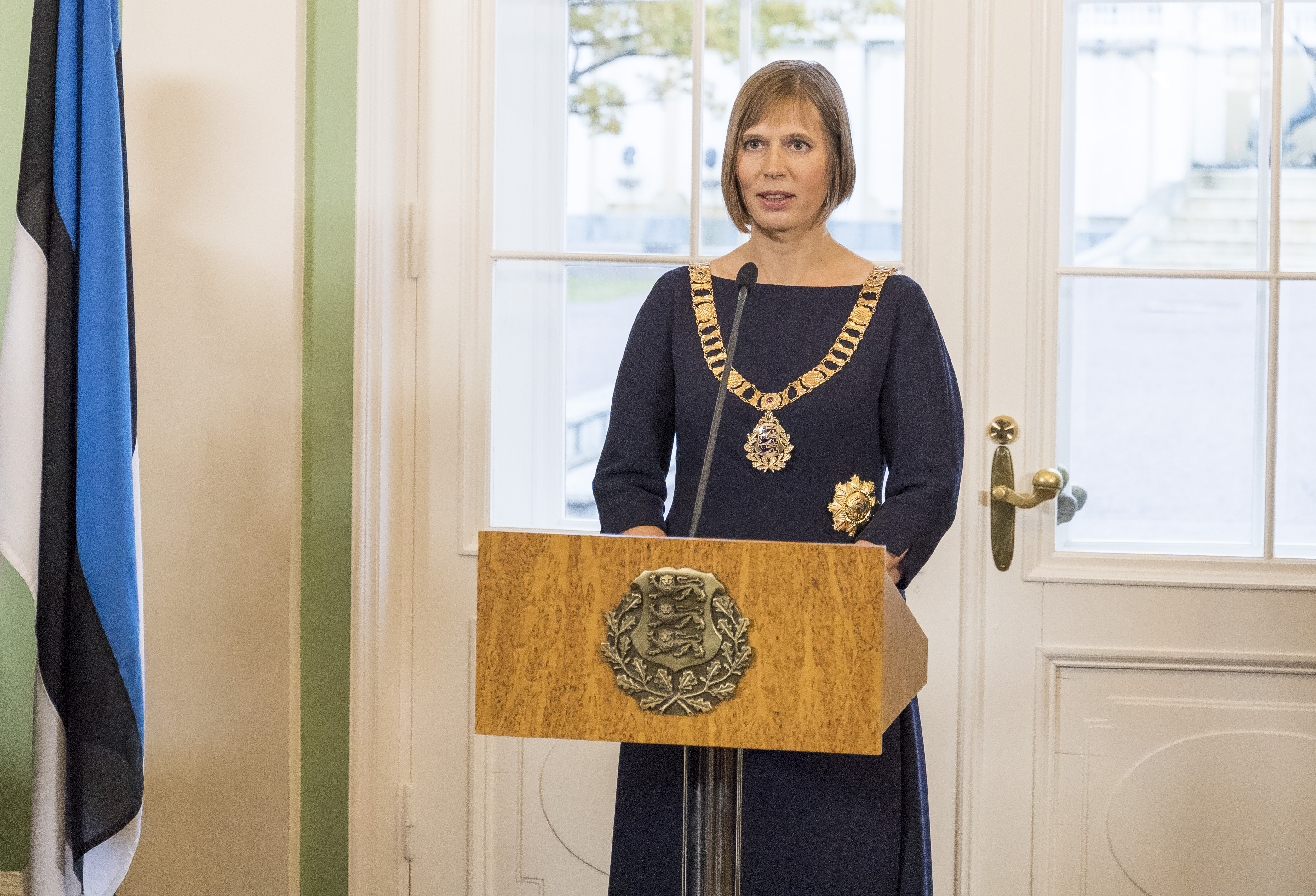 Inauguration ceremony of the President of Estonia Kersti Kaljulaid.